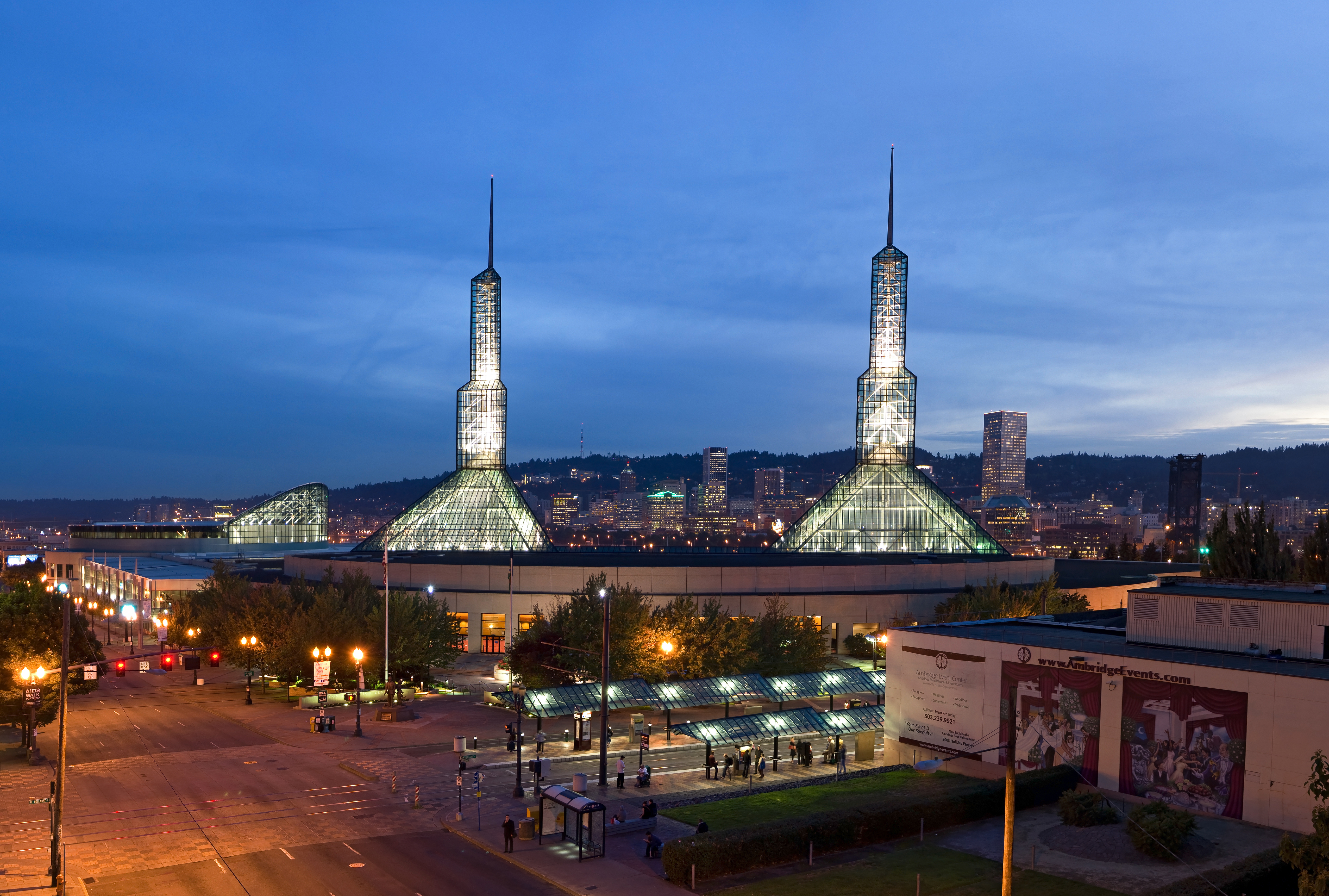 The Oregon Convention Center in Portland, Oregon, USA. Taken at dusk, 4x2 segment stitched image.